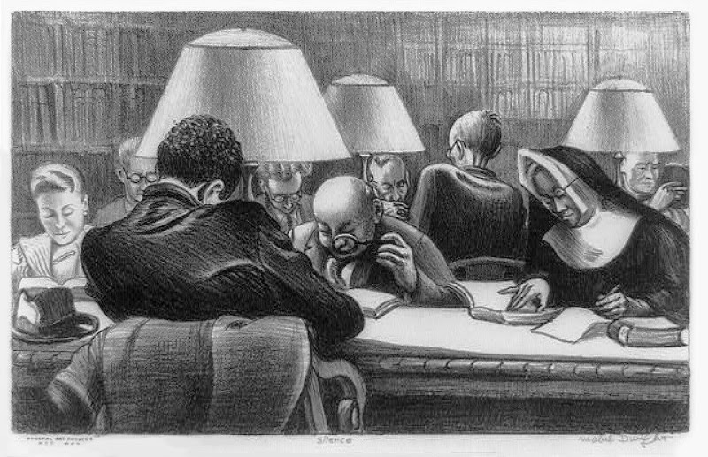 Mabel Dwight, Silence, 1939, lithograph on stone, 19.4 x 29.2 cm, edition of 25 printed by the Federal Art Project